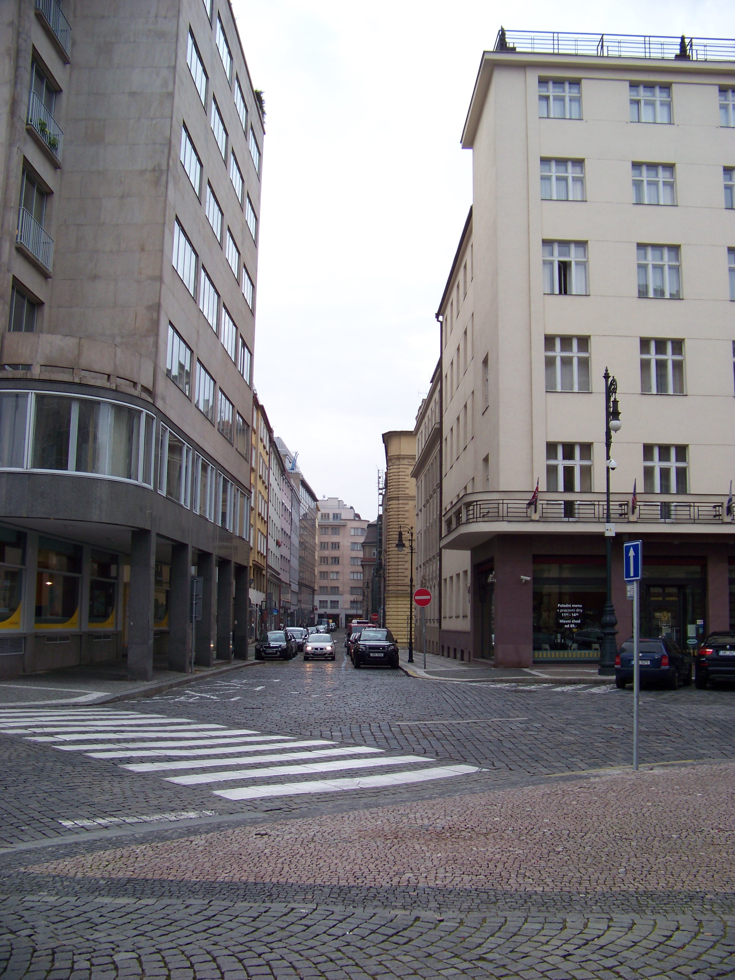 Prague-Old Town. Hradební street. - OpenStreetMap (Info)